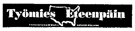 Finnish-American journal published weekly in Superior, Wisconsin. Logo from late 1980s.